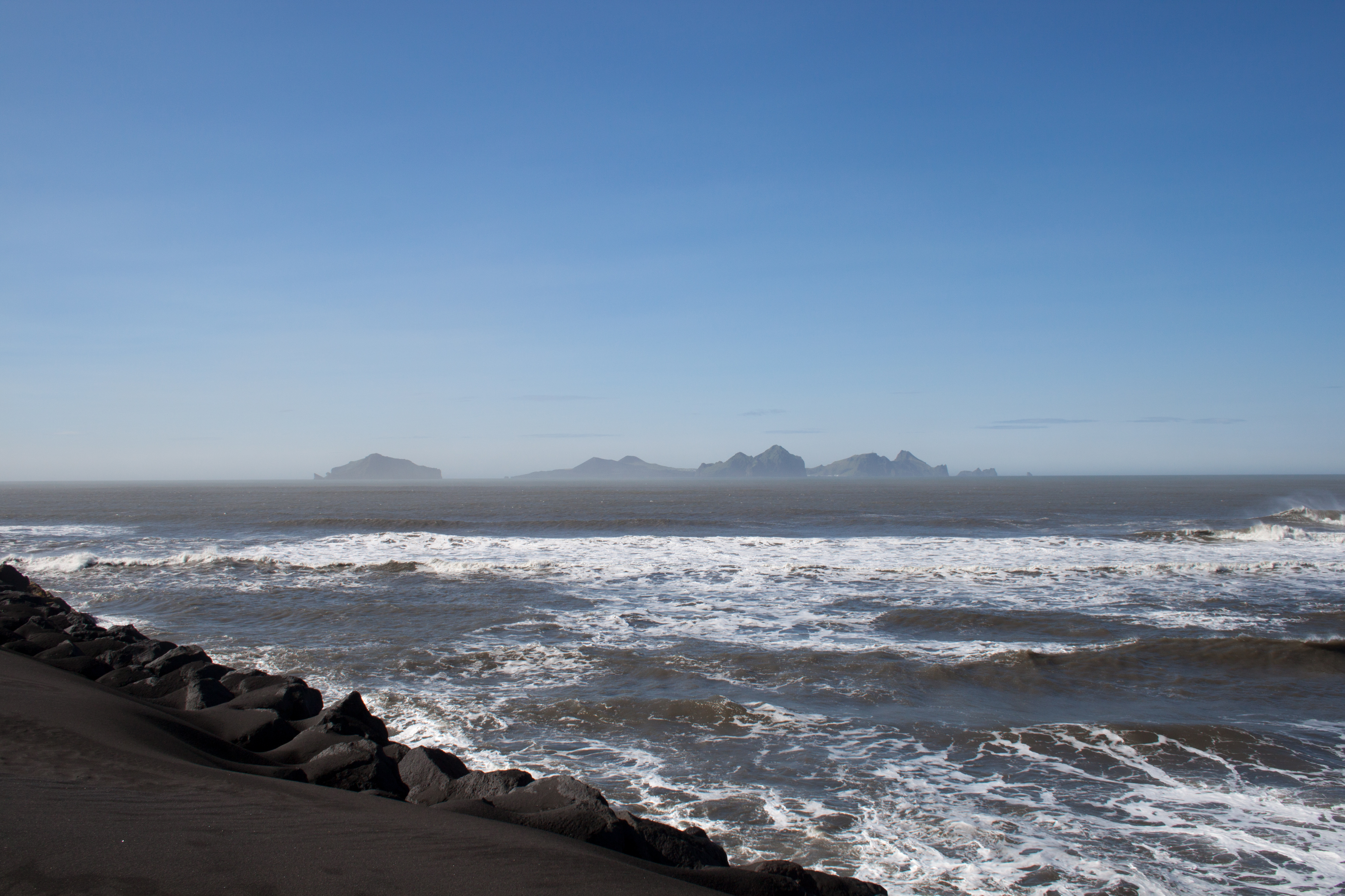 Landeyjahöfn, view of the Westman islands